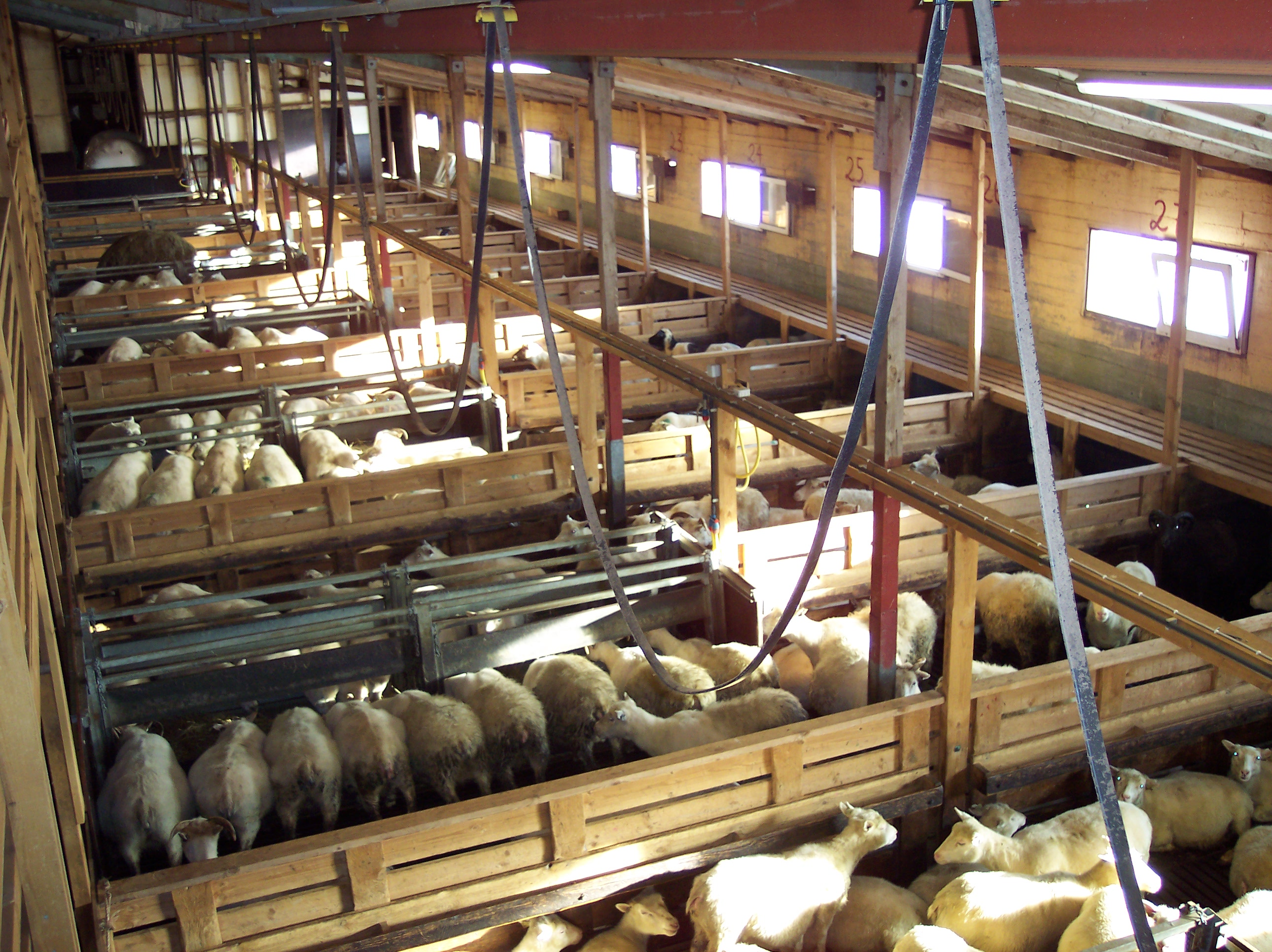 Sheep shed, Iceland